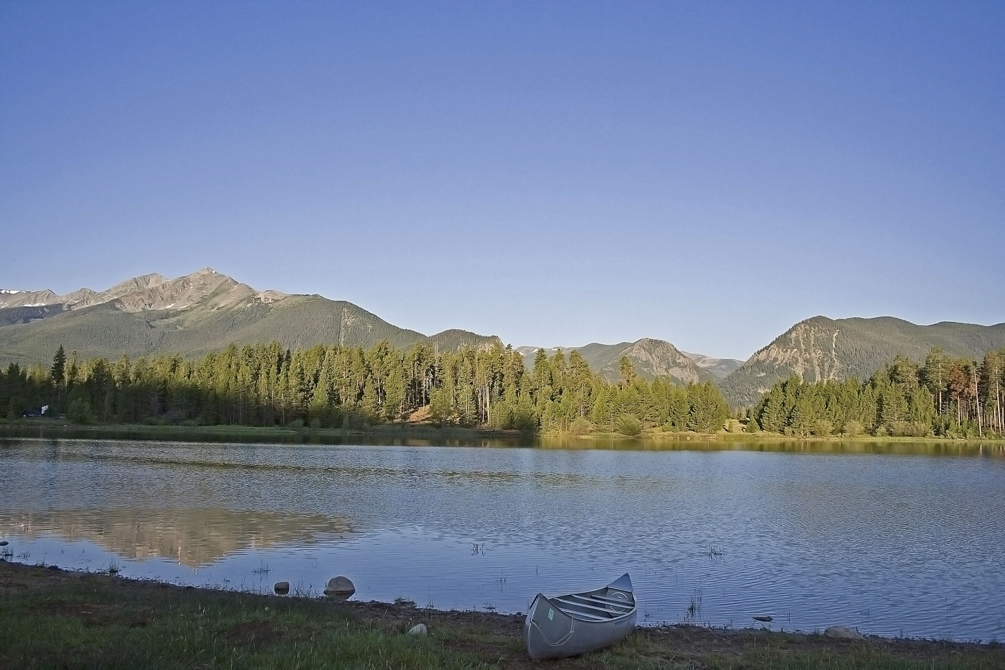 SourceAdam Ginsburg Lake Dillon in Colorado